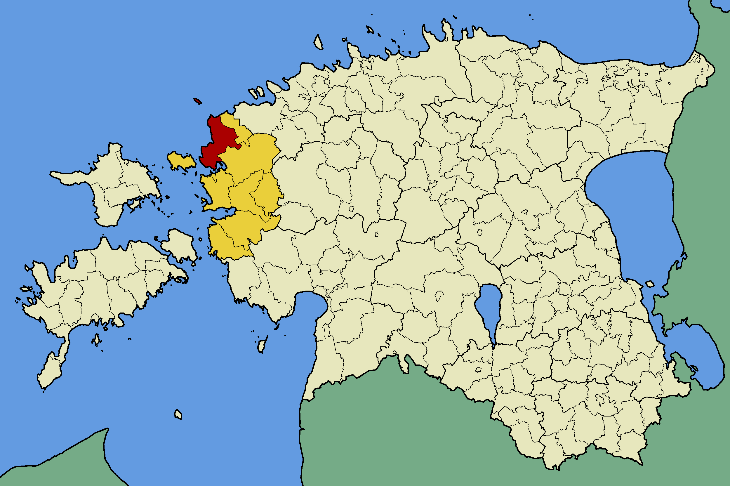 Map of Estonia with borders of municipalities (parishes). Lääne county and Noarootsi municipality emphasized.